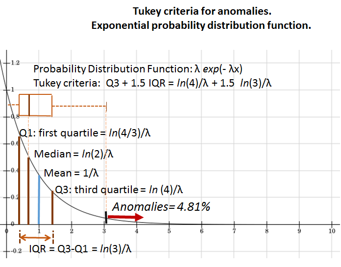 Tukey criteria is shown visually.